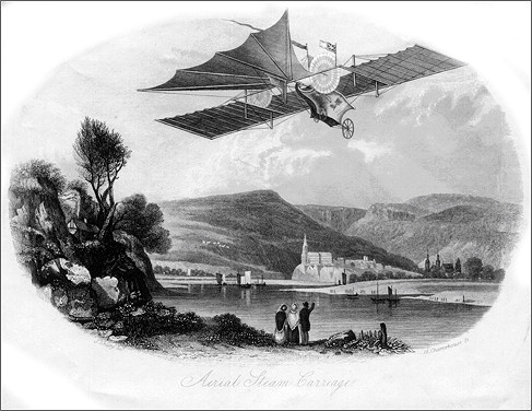 Aerial steam carriage - was patented in 1842 by William Samuel Henson